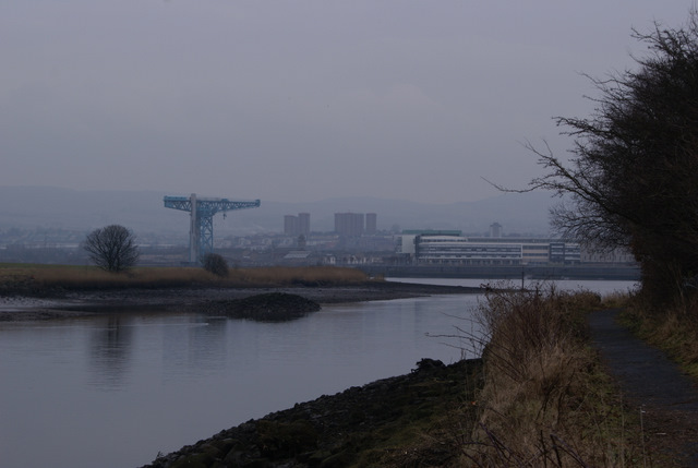 River Cart The River Clyde and the Titan Crane at Clydebank are visible in the distance.